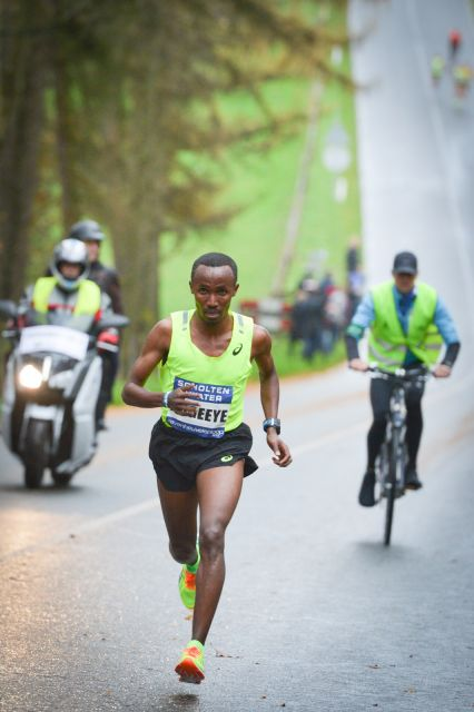 Abdi Nageeye tijdens de Zevenheuvelenloop 2015